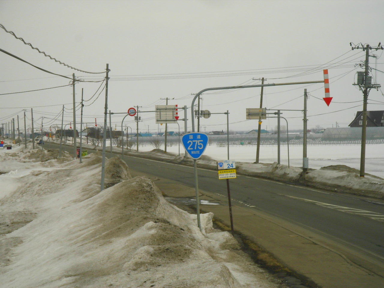 National Highway 275 of Japan. Tobetsu, Hokkaido, Japan.